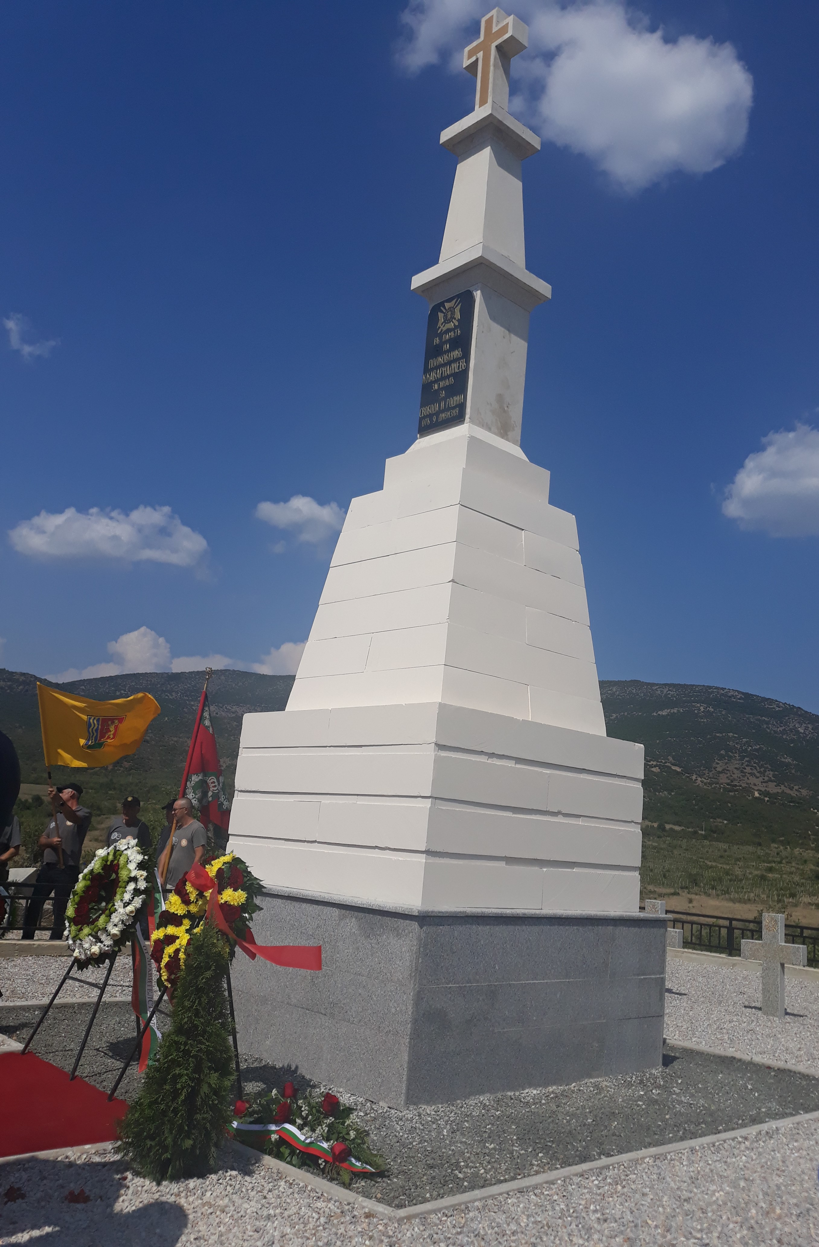 Kavarnaliev's monument near Doyran, North Macedonia on its re-inauguration, 1 August 2019